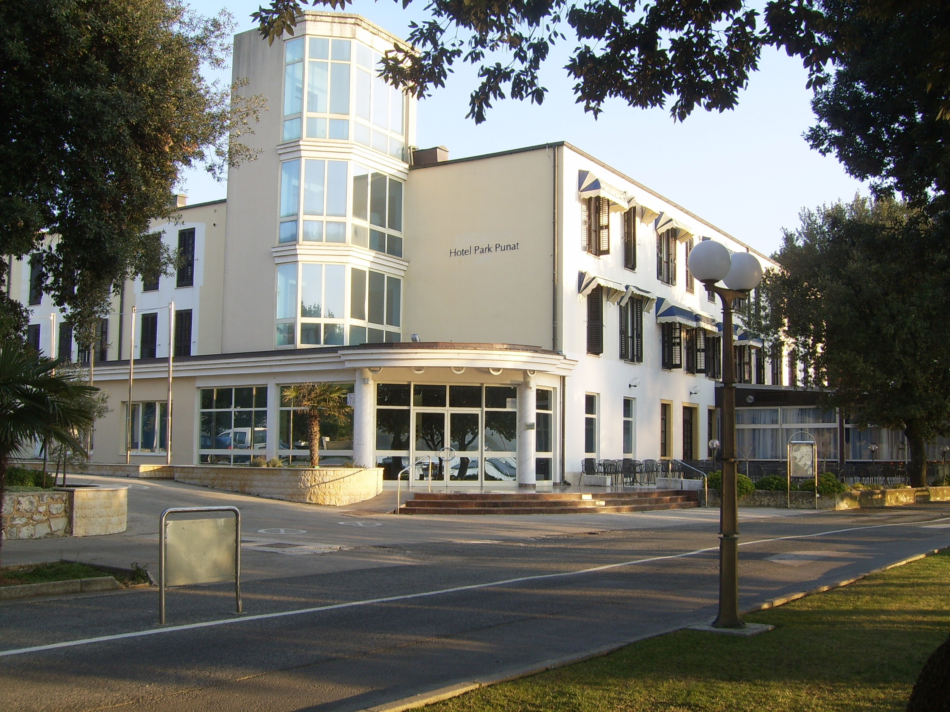 Hotel Park Punat